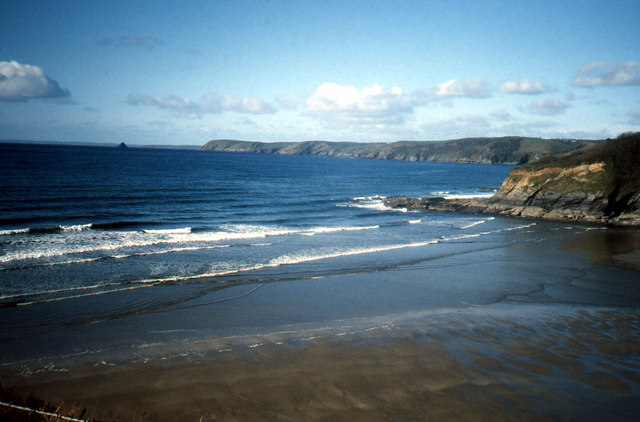 Porthluny Cove by Caerhays Castle. Looking beyond over Veryan Bay to the conical Gull Rock in the distance off Nare Head